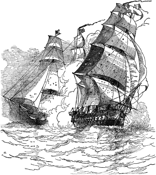 USS Constellation and la Vengeance fighting on the high sea